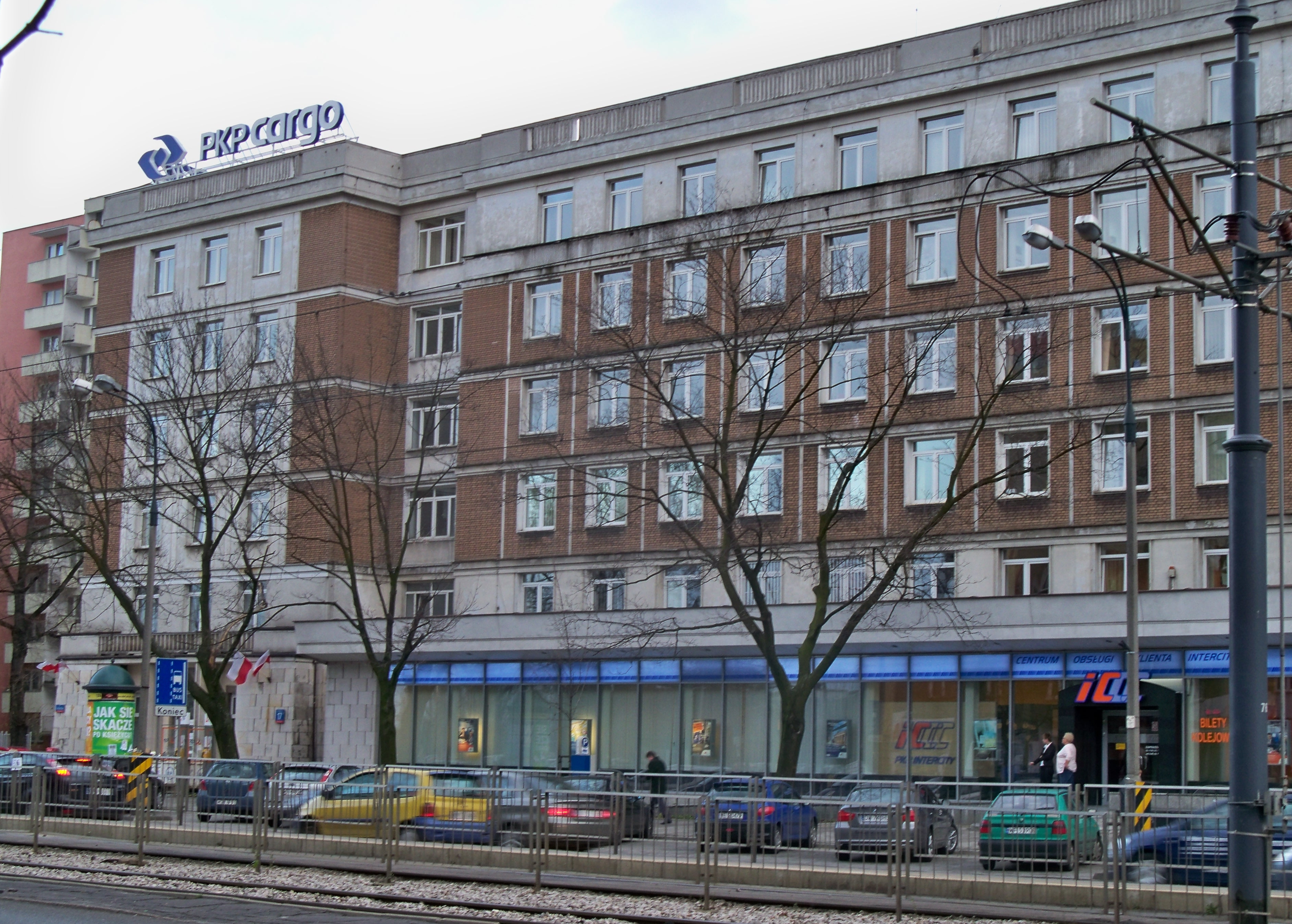 An office of Polish State Railways. Warsaw, Grójecka Street.